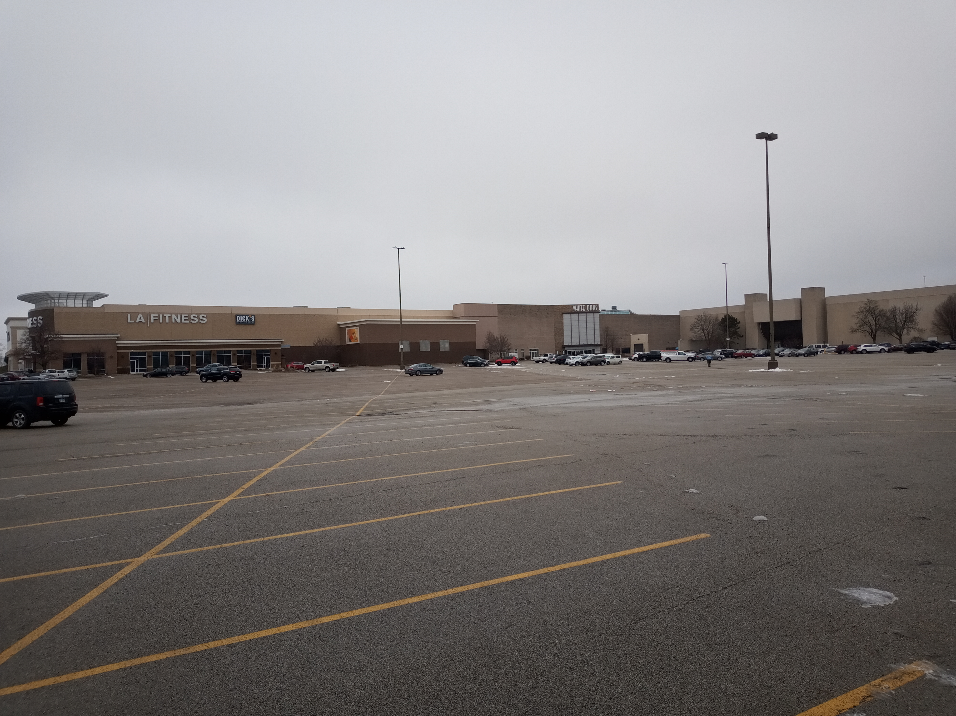 White Oaks Mall in Springfield, Illinois, featuring LA Fitness.